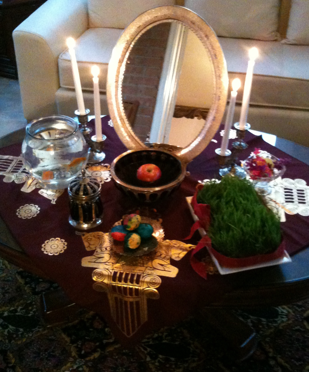 Haft Chin Table Mirror - symbolizing Sky Apple - symbolizing Earth Candles - symbolizing Fire Golab - rose water symbolizing Water Sabzeh - wheat, or barley sprouts symbolizing Plants Goldfish - symbolizing Animals Painted Eggs - symbolizing Humans and Fertility